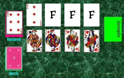 This is a diagram of the game of Canfield, based on an actual layout. The image is made in Microsoft Paint and the cards used were based on the SVG Playing Cards.